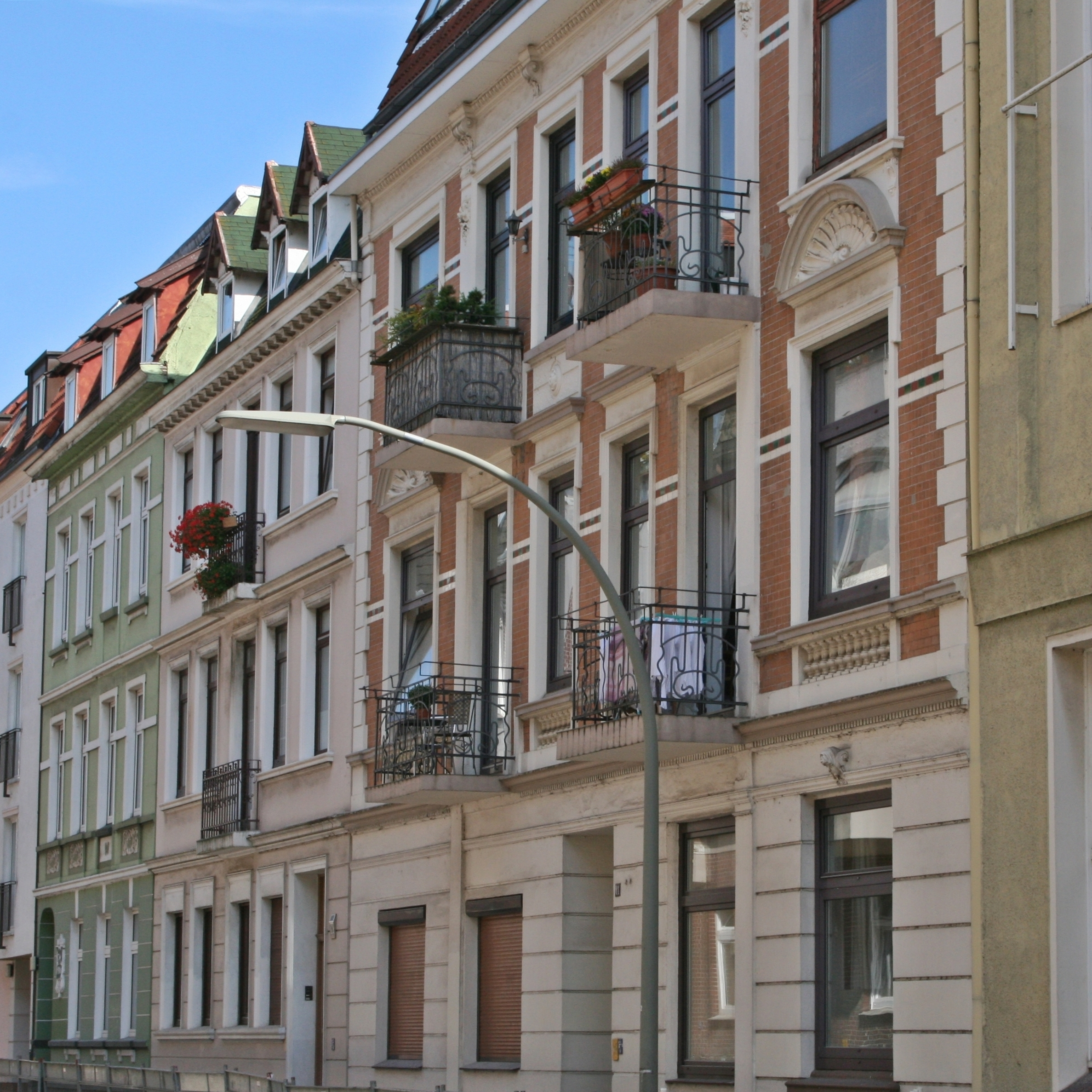 House Hassestraße 11 in Hamburg-Bergedorf. Ernst Henning, member of the Bürgerschaft, an early victim of Nazism, lived in this house. A Stolperstein is placed in front of the house.